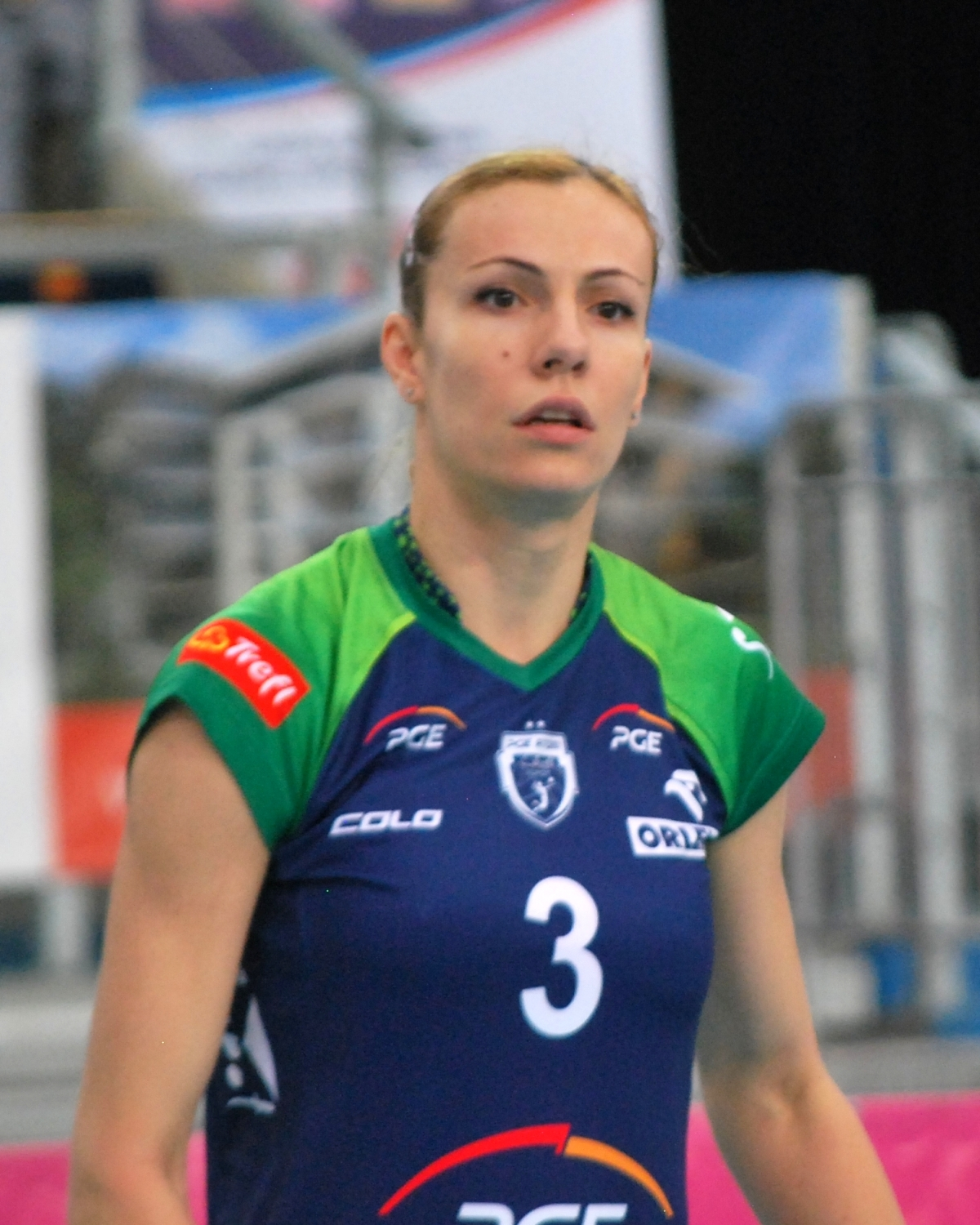 Ivana Derisilo, volleyball player from Serbia